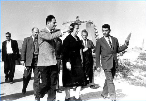 Inception of Soreq Nuclear Reaserch Center, Israel